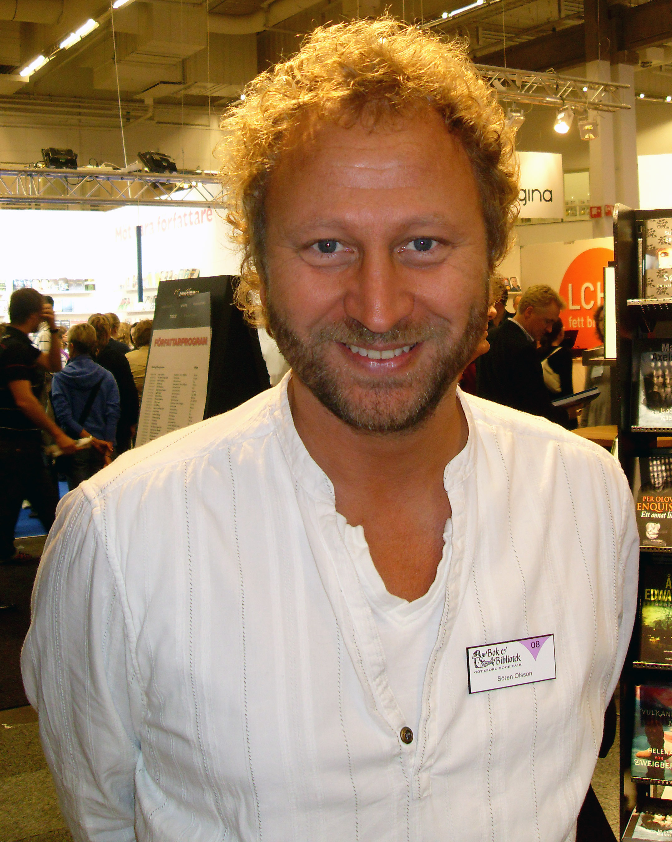 Swedish author Sören Olsson at gothenburg book fair 2008